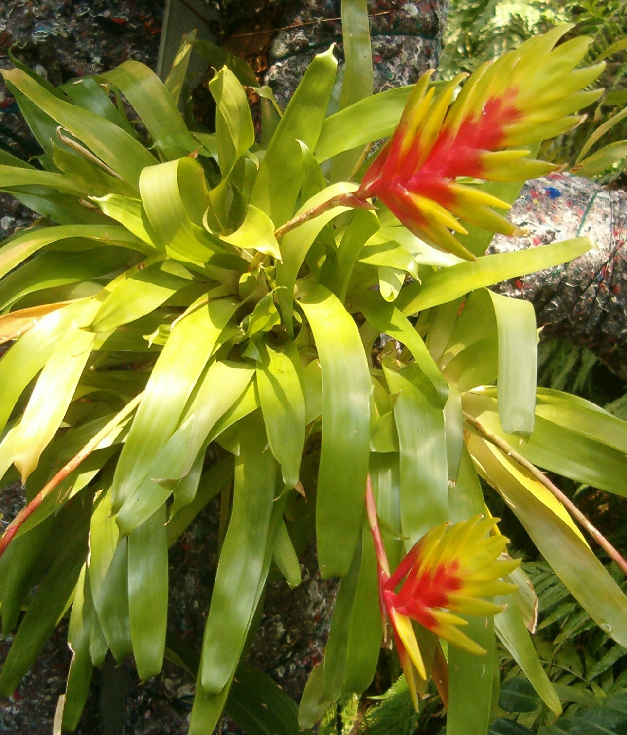 At Botanical Gardens Berlin-Dahlem Species Vriesea carinata